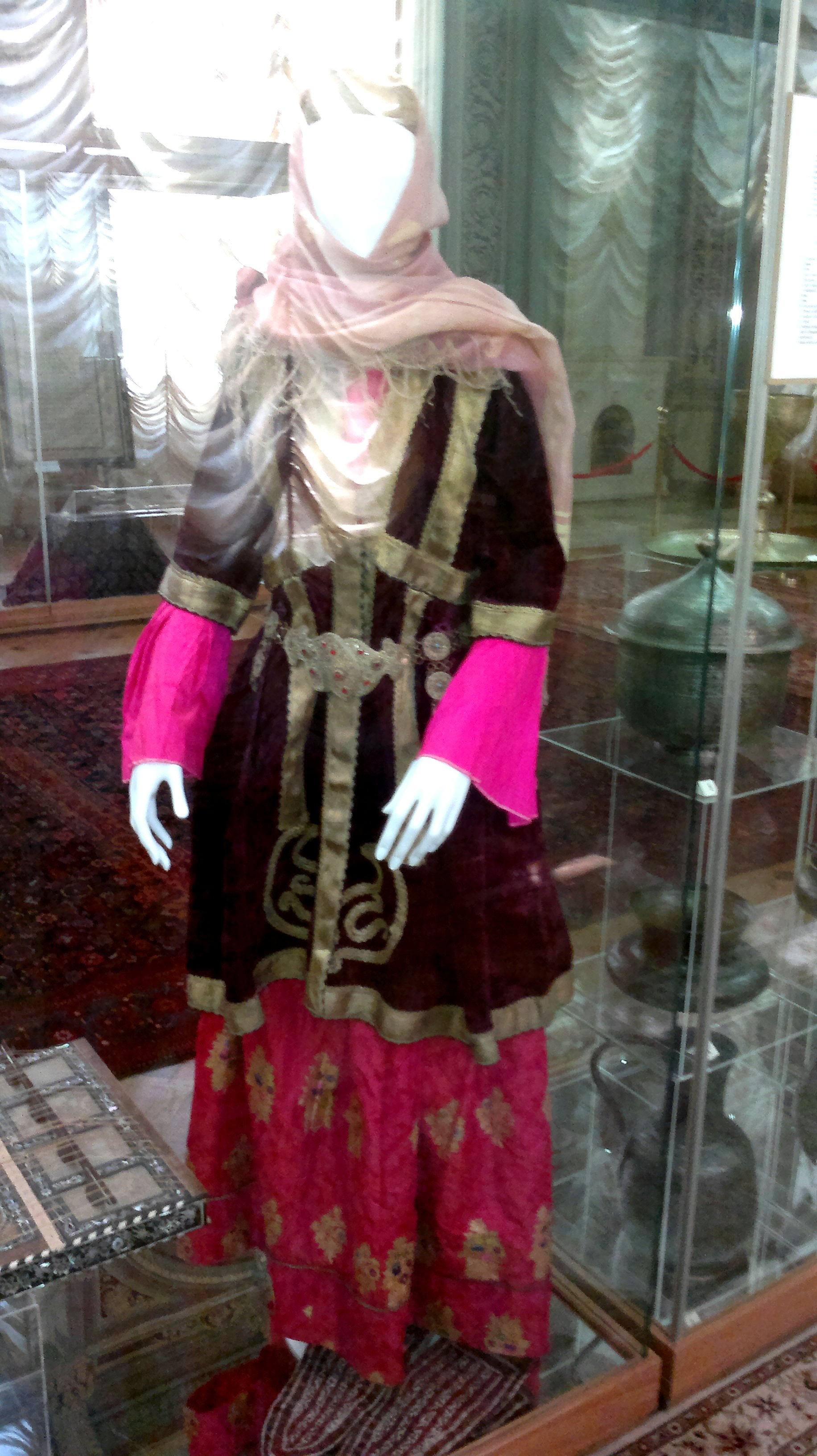 National clothes of Erivan Khanate: dinge (headdress), gaz-gazi orpek (kerchief), koynek (shirt), Gulabatin kyulaja (outerwear), tuman (skirt), jorab (socks), bashmag (shoes). Museum of History of Azerbaijan.